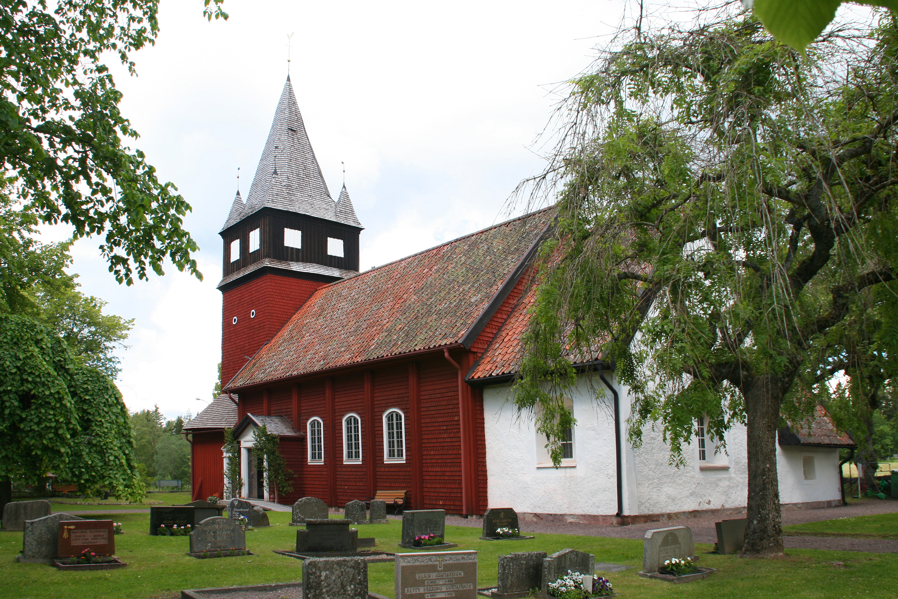 Haurida Church.